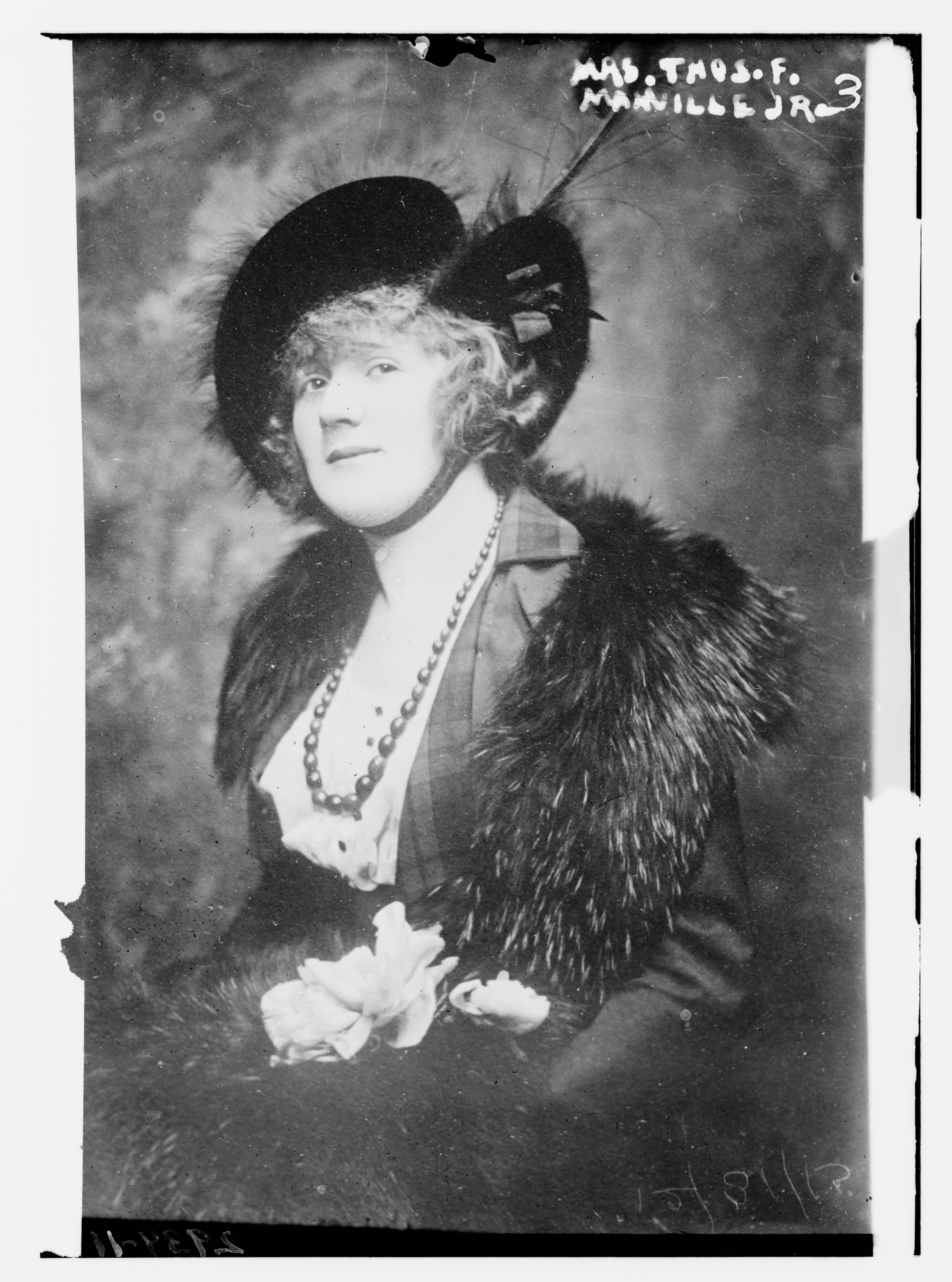 Chorus girl Florence Huber married industrial heir Thomas Franklyn "Tommy" Manville in 1911, when he was just 17; they had known each other just five days. That was the first of his thirteen marriages (to eleven different women). Bain News Service,, publisher. Mrs. Thos. F. Manville Jr. between ca. 1910 and ca. 1915 1 negative : glass ; 5 x 7 in. or smaller. Notes: Title from unverified data provided by the Bain News Service on the negatives or caption cards. Forms part of: George Grantham Bain Collection (Library of Congress). Format: Glass negatives. Repository: Library of Congress, Prints and Photographs Division, Washington, D.C. 20540 USA, General information about the Bain Collection is available at Persistent URL: Call Number: LC-B2- 2939-11